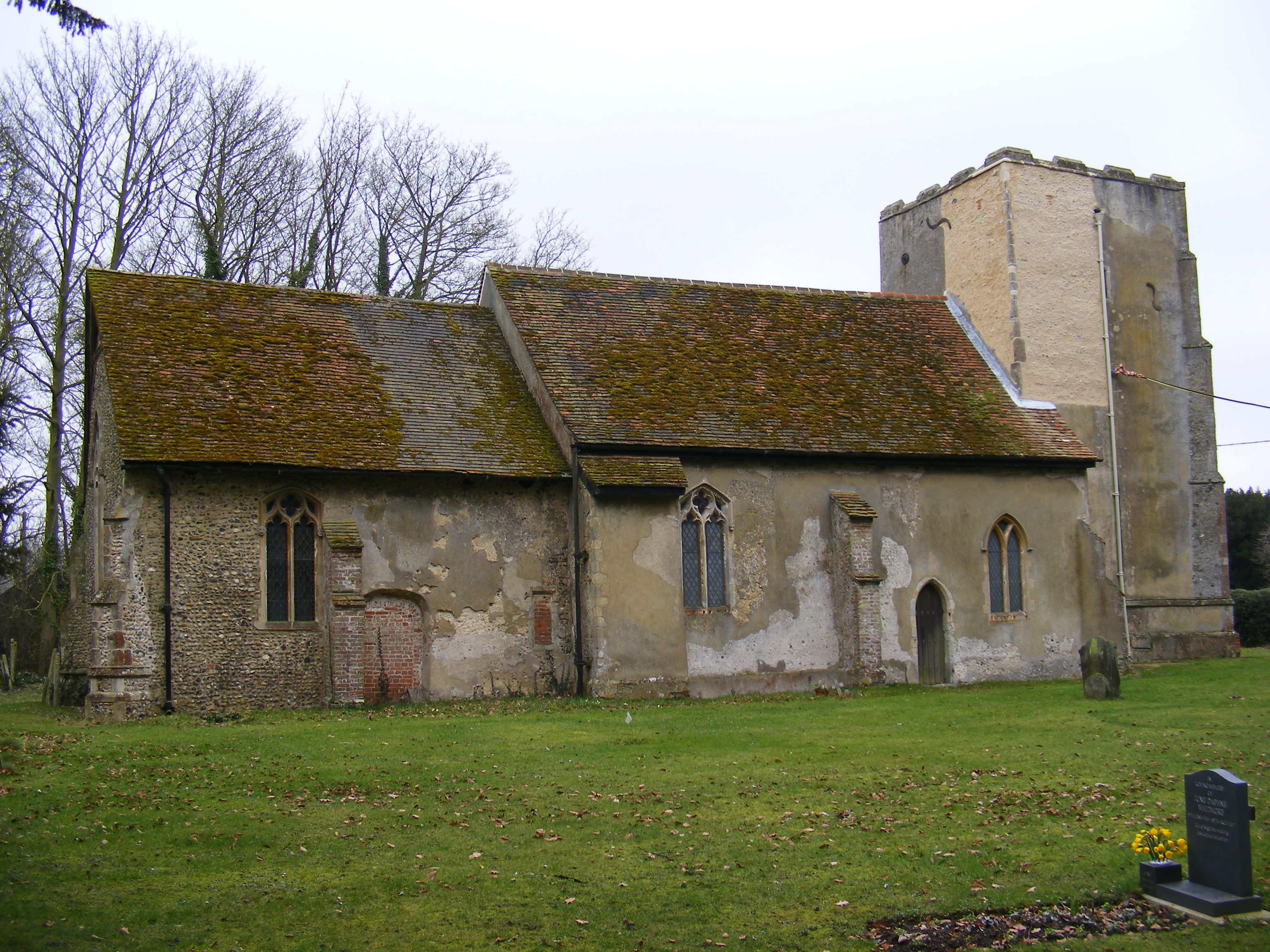 All Saints & St.Margarets Church, Chattisham